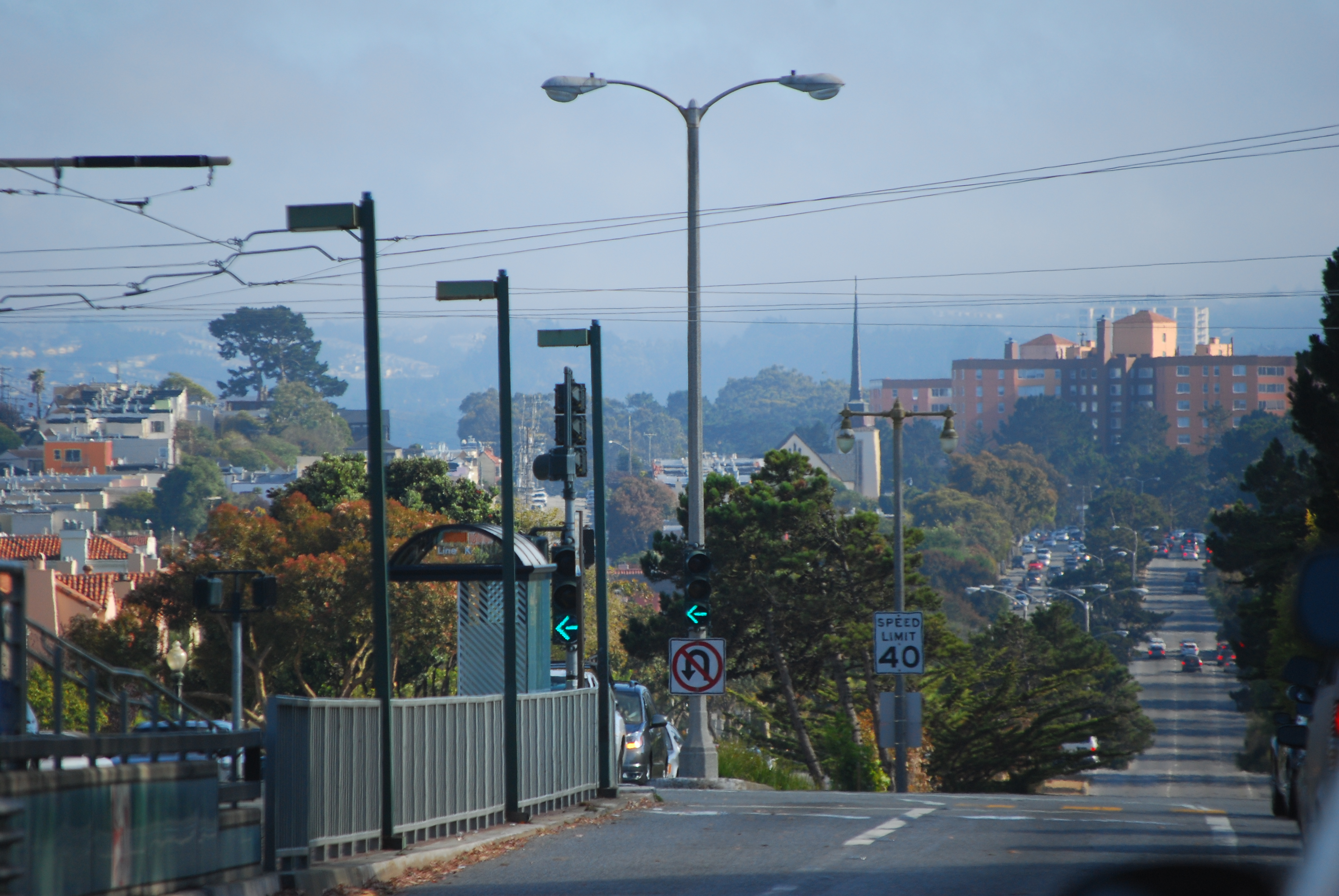 Looking south.